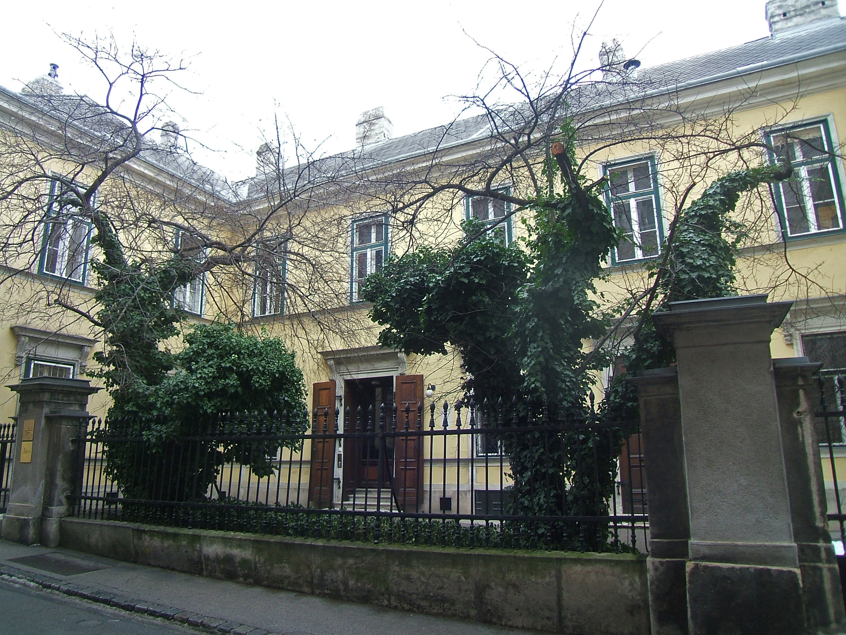 Palais Salm in Vienna 3rd district, Salmgasse 2